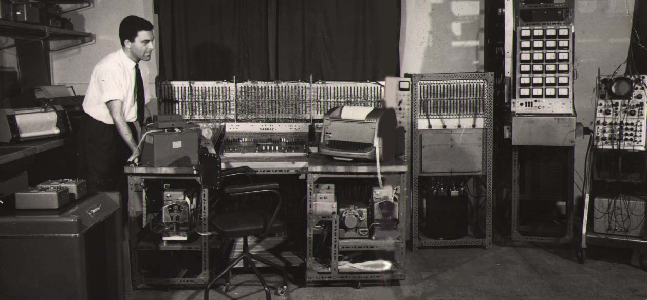 Manny Lehman with the SABRAC computer, at the ministry of defence